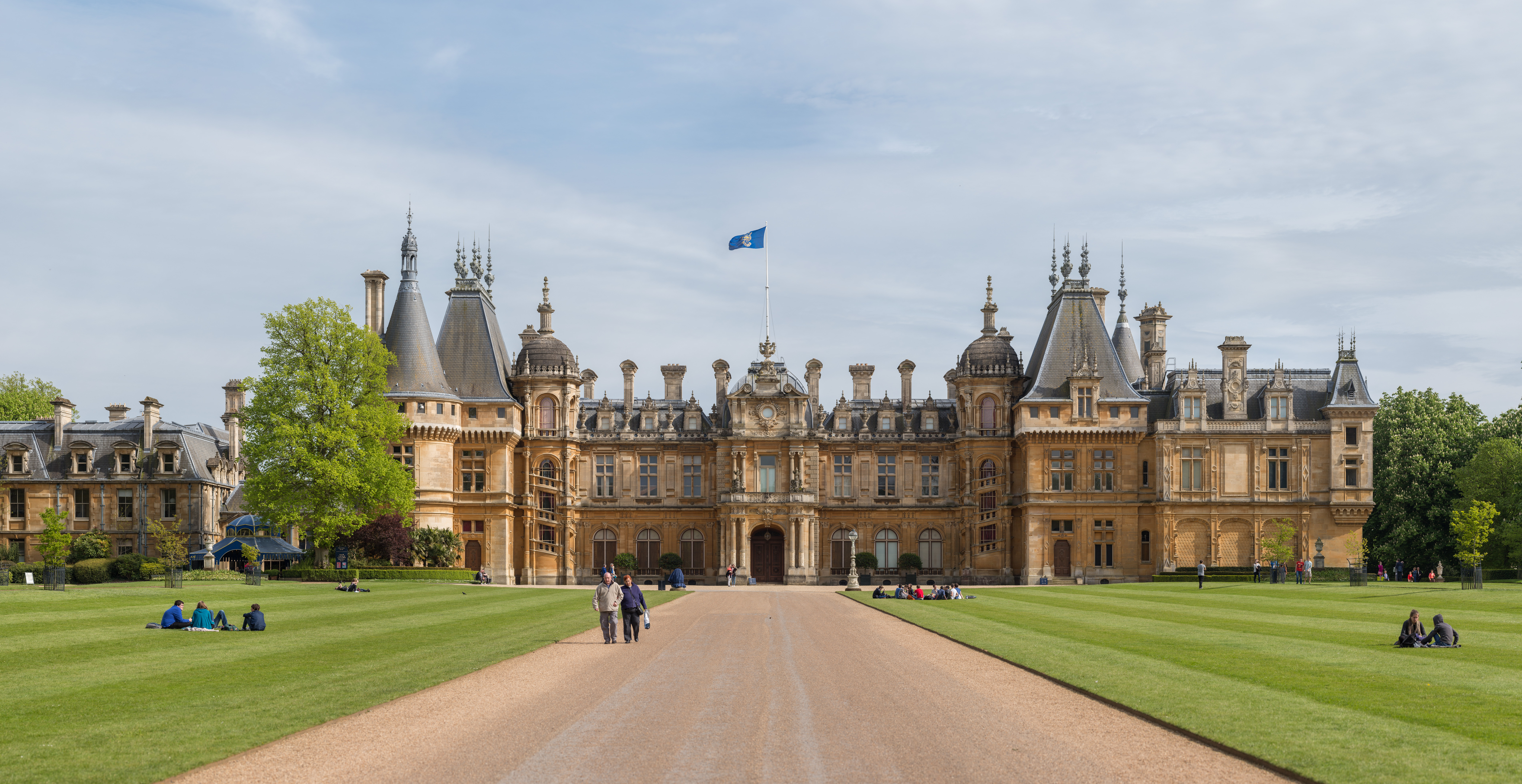 A panoramic view of the north façade of Waddesdon Manor in Buckinghamshire, England.